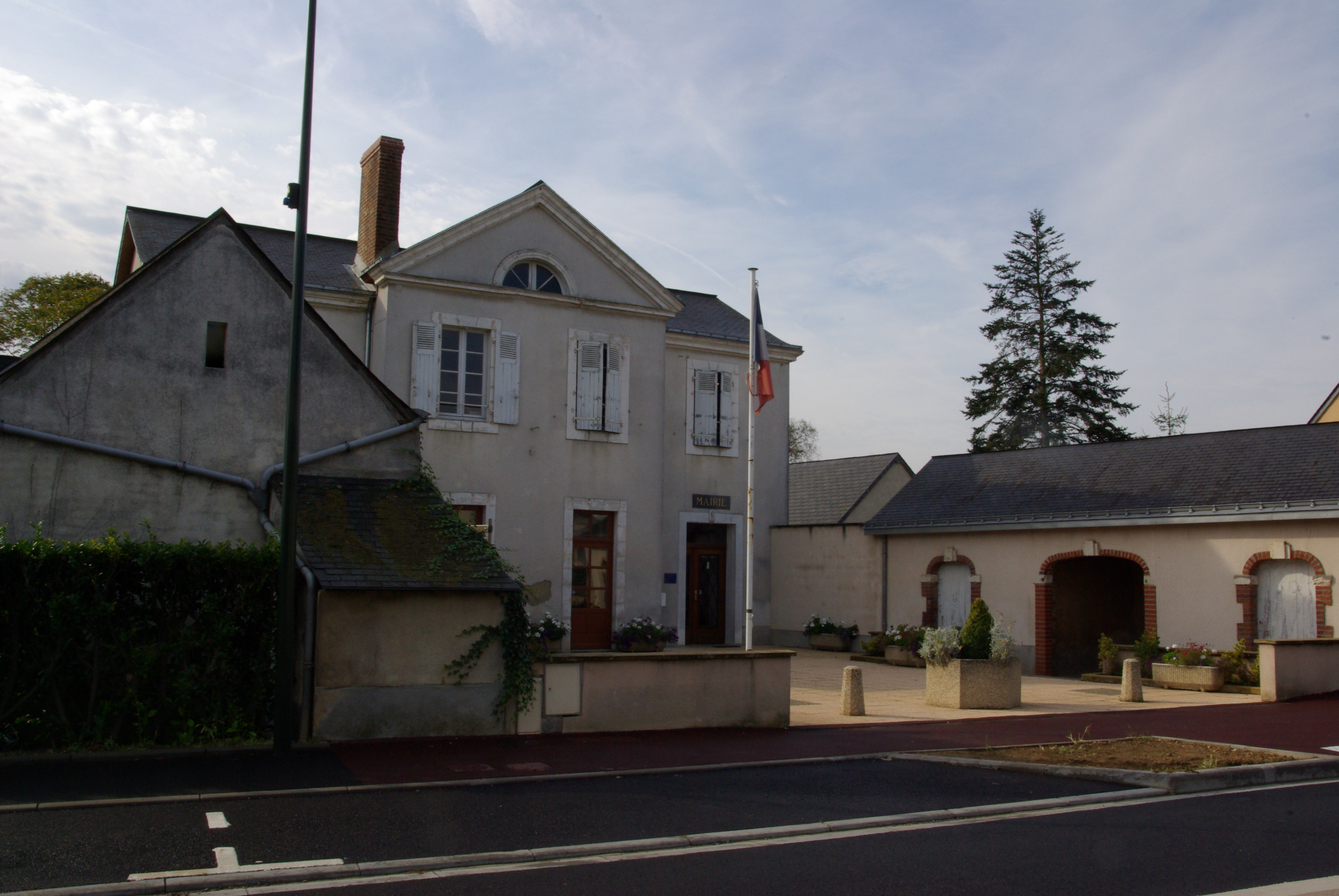 City Hall Louplande